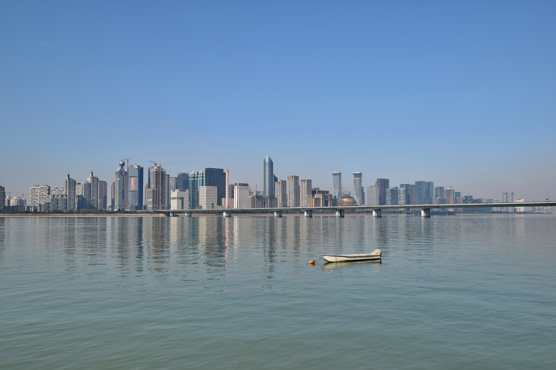 Qiantang River - Hangzhou CBD